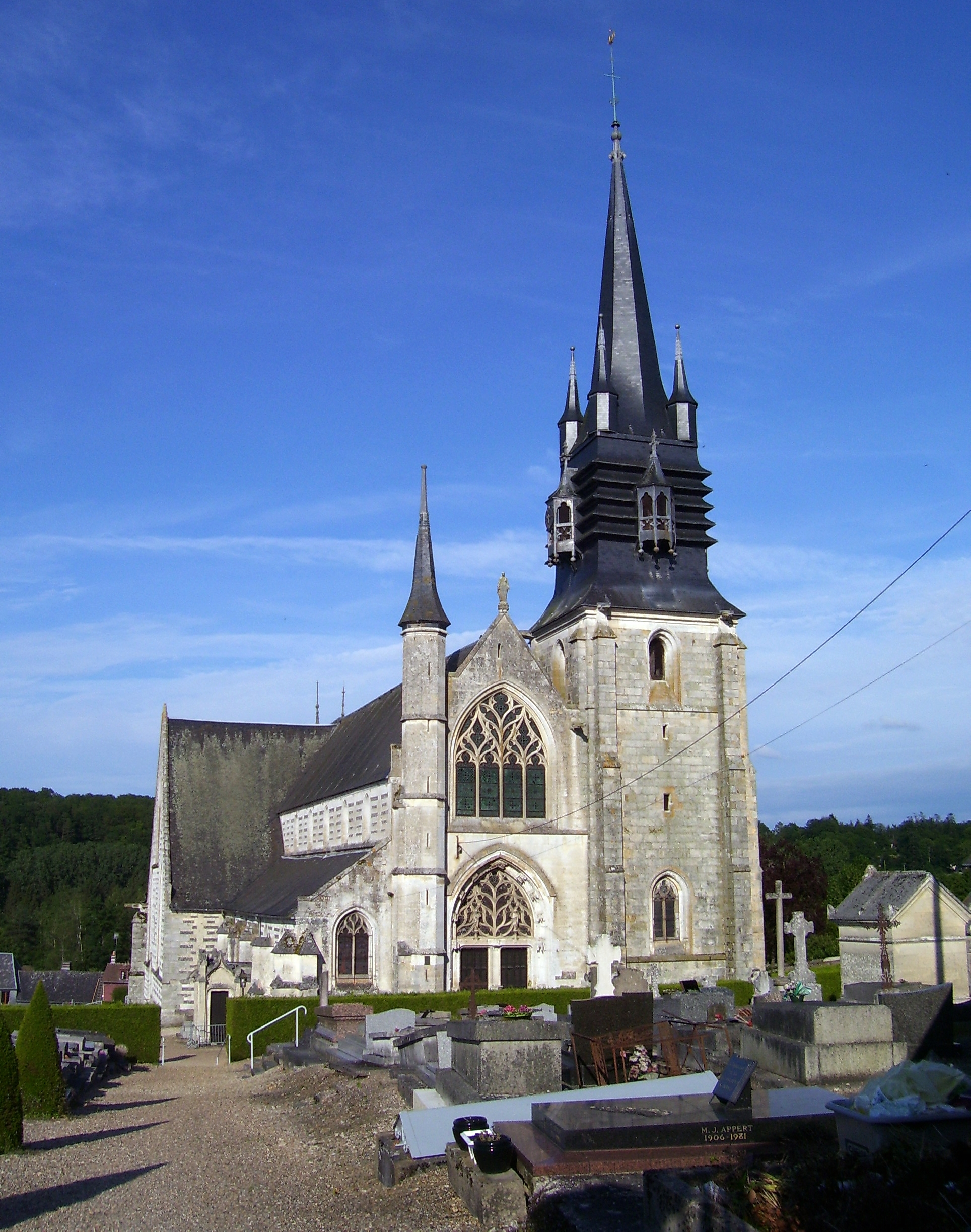 The basilica Notre-Dame de la Couture in Bernay (Eure, France).